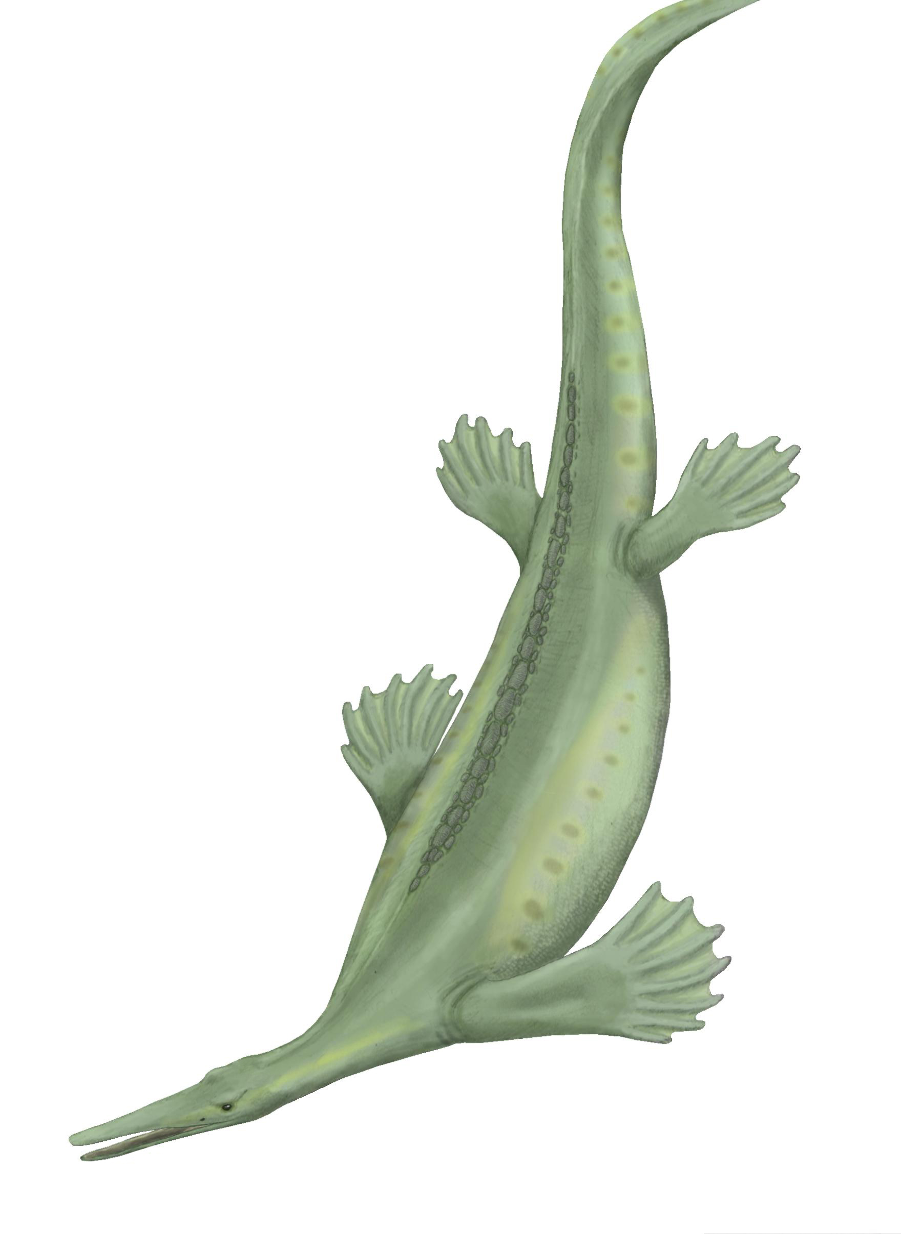 Life restoration of an unnamed species of hupehsuchian based on the specimen SSTM 5025.